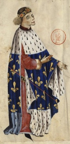 Pierre I de Bourbon